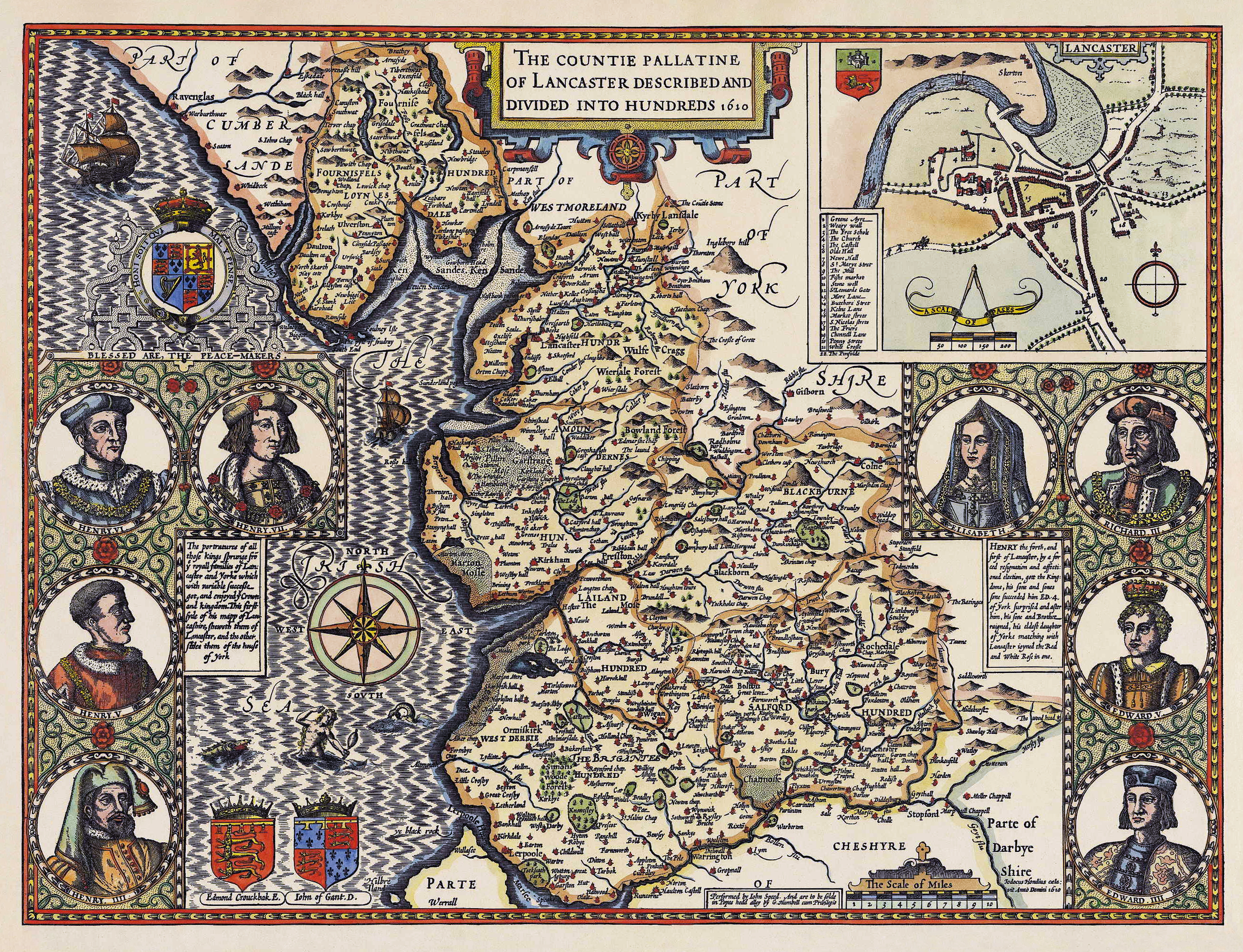 "The countie pallantine of Lancaster [a.k.a. Lancashire, England] described and divided into hundreds 1610"